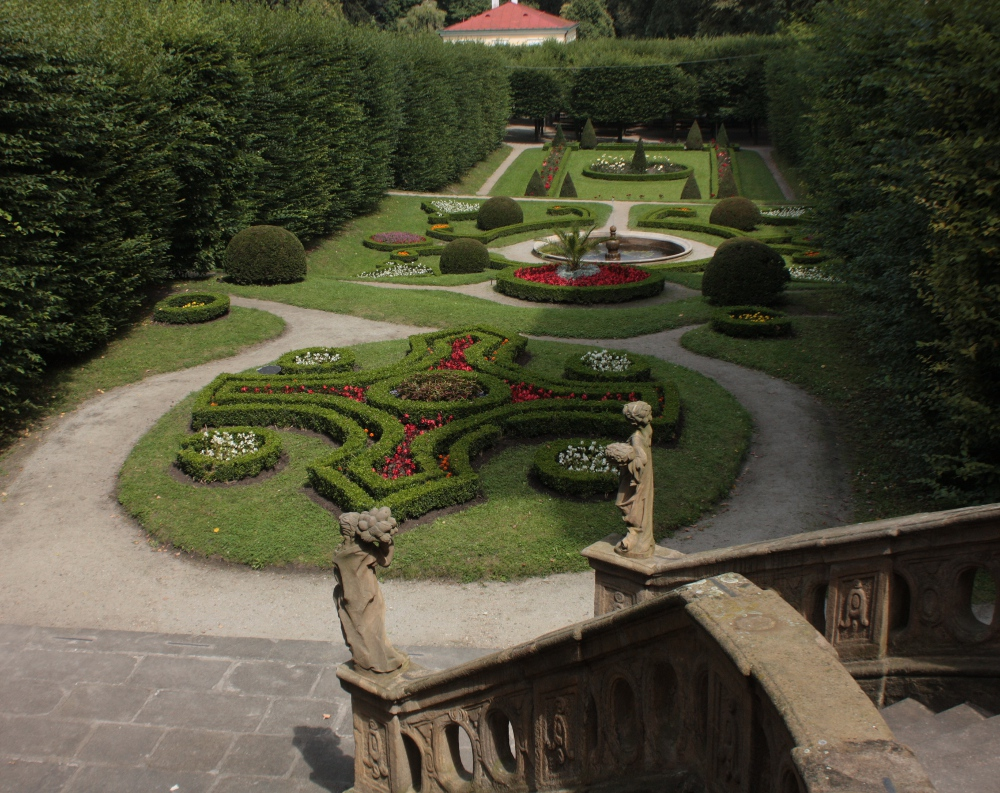 Podzámecká zahrada, Kroměříž, Czech republic, garden "ala italiana"